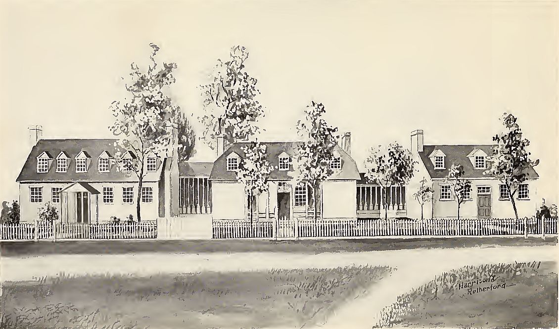 Print of the home of Thomas Ritchie, taken from Ritchie biography by Charles Henry Ambler, 1913